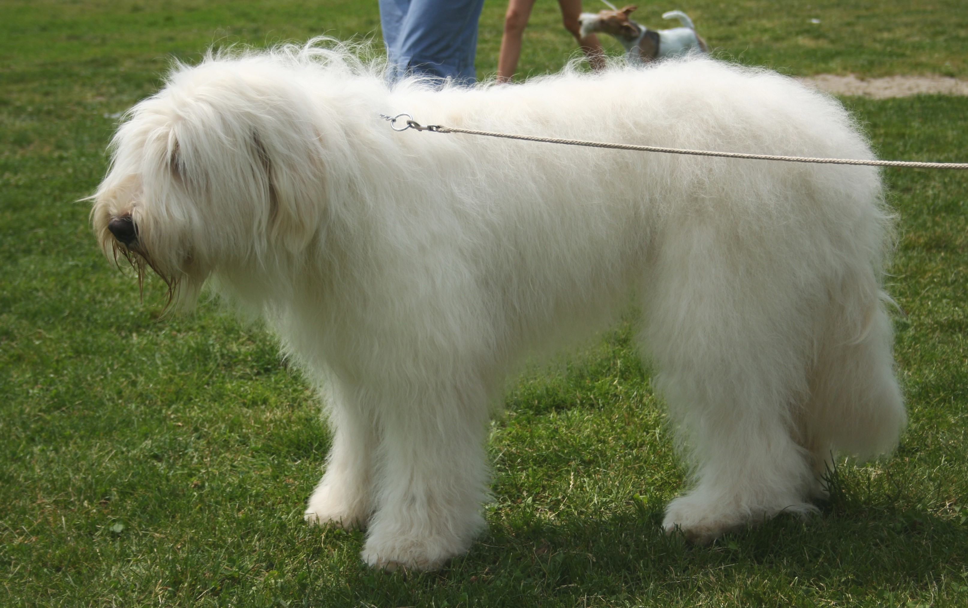 South Russian Ovcharka during dog's show in Racibórz, Poland